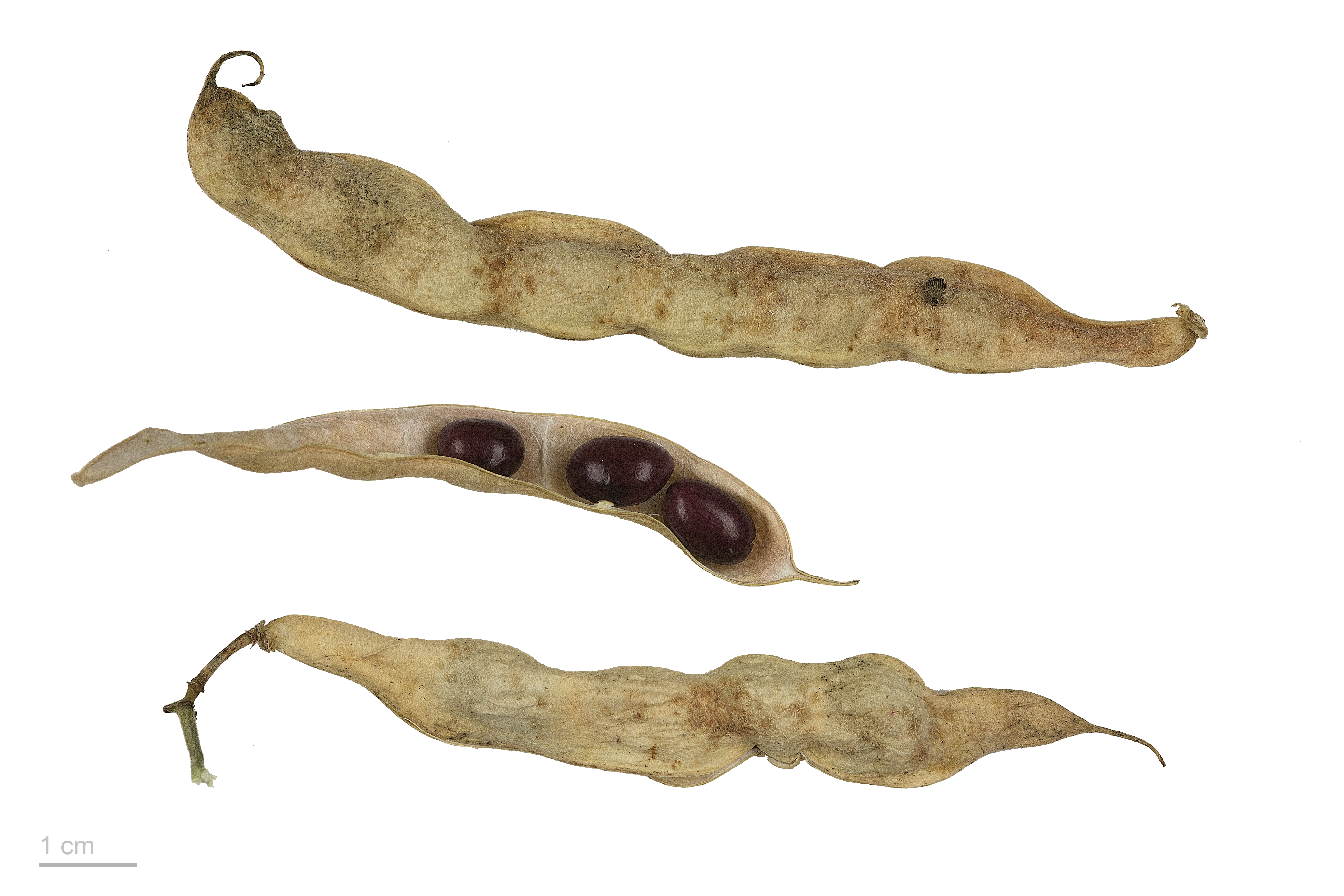 Phaseolus vulgaris, common bean, seeds